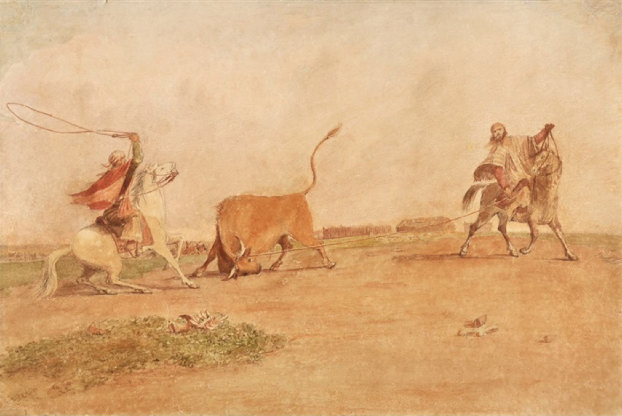 Two gauchos are lassoing a bull in Buenos Aires province. This enormous (122 x 185 inches) watercolour by Emeric Essex Vidal was dedicated by him to Lady Ponsonby, wife of the British ambassador.